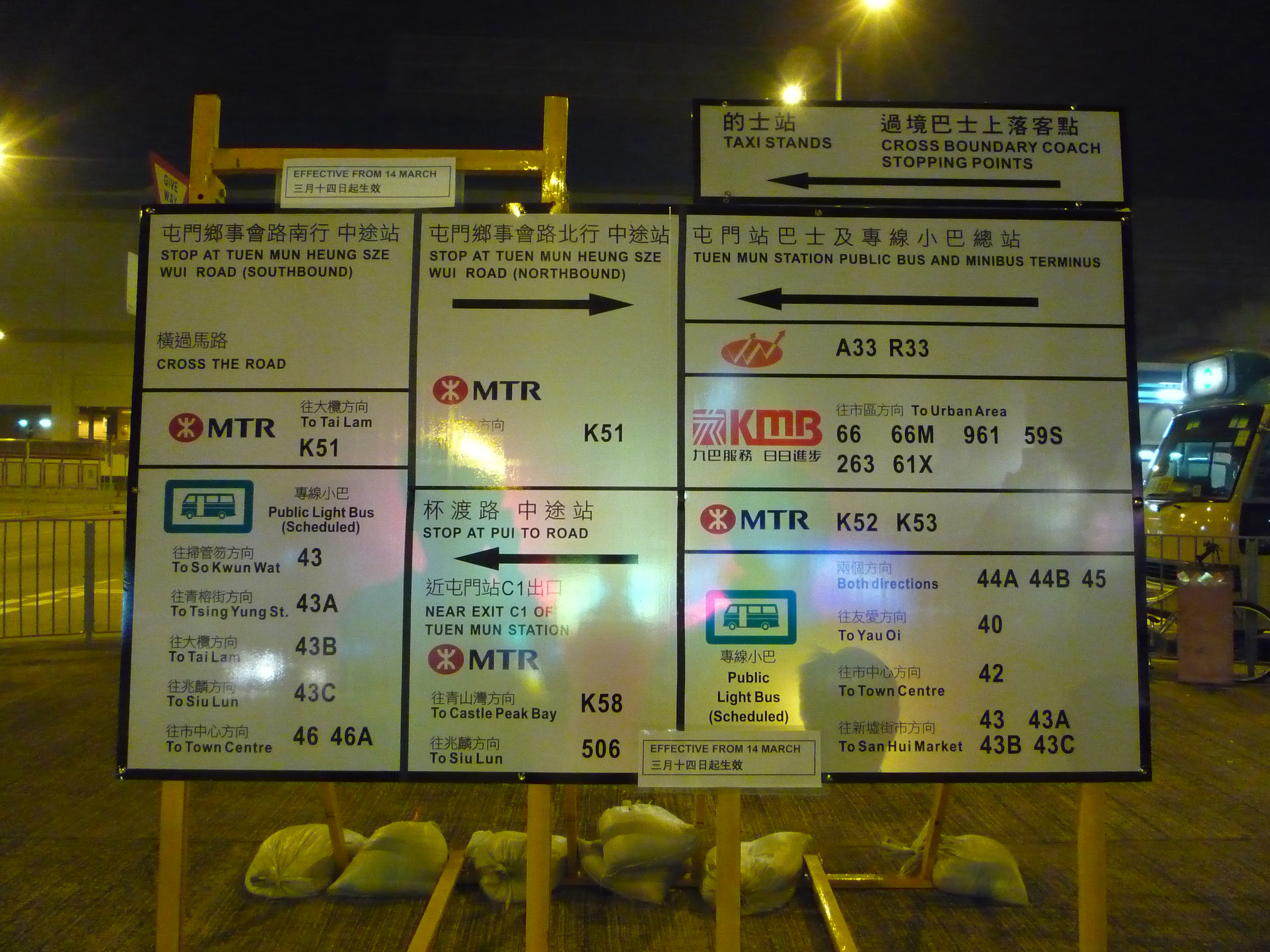 Tuen Mun Station Public Transport Interchange